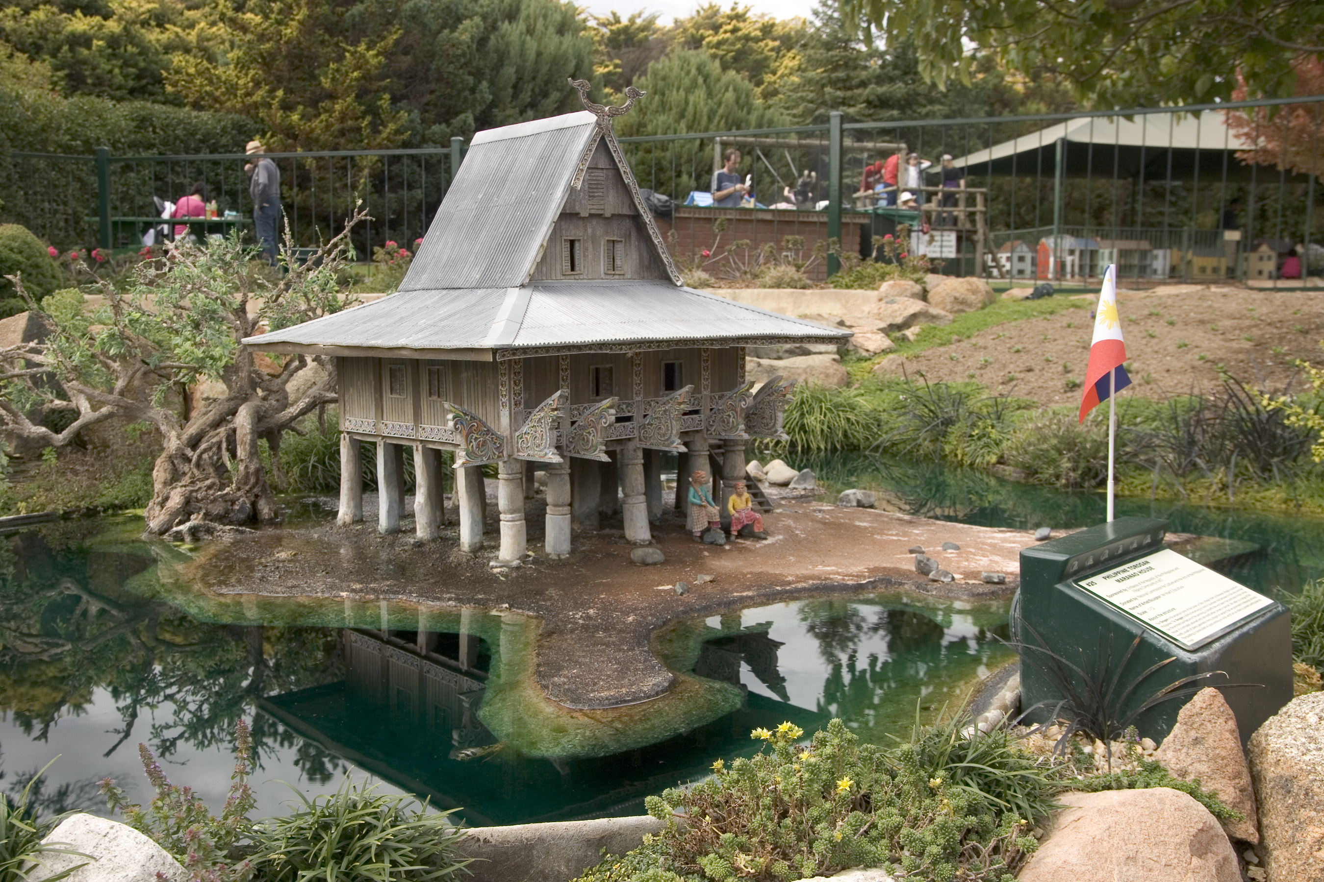 Model of Torogan house of the Maranao people at Cockington Green Gardens